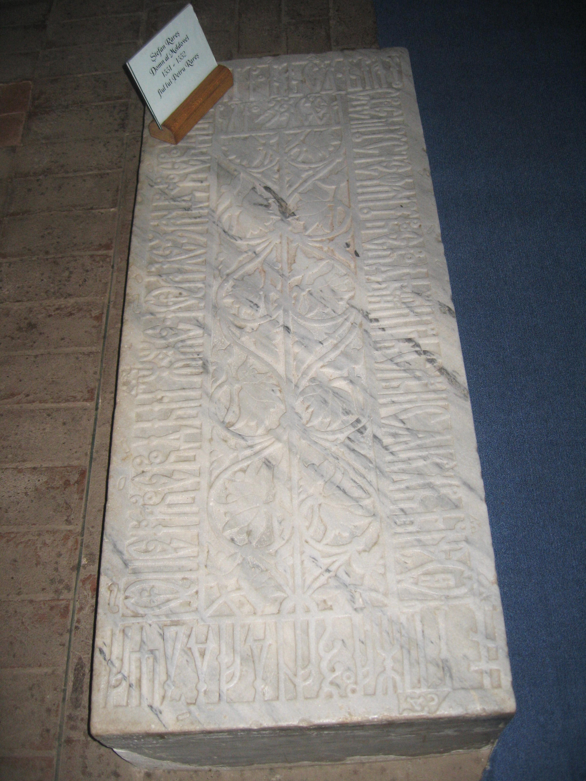 Probota Monastery